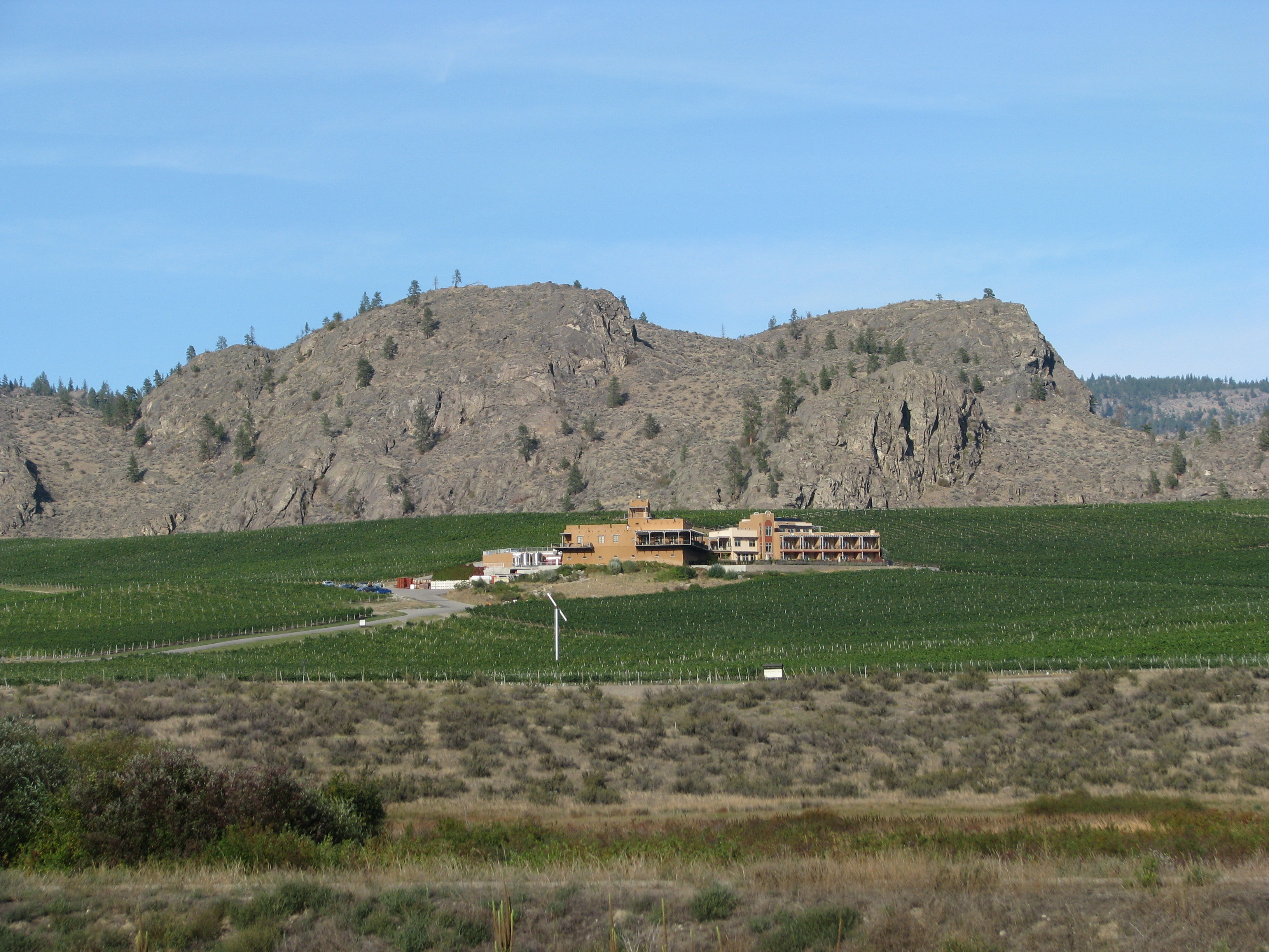 Wineries are big business in the Okanakan, primed for tours and tastings. Yum!